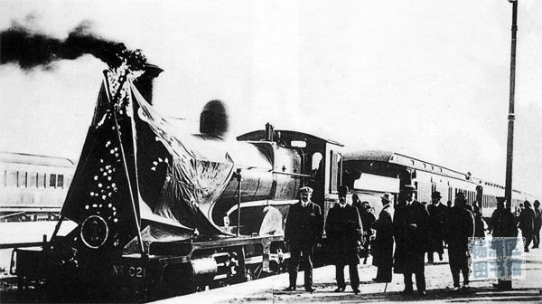 The first train of Huning Railway 中文（中国大陆）: 沪宁铁路的首发列车